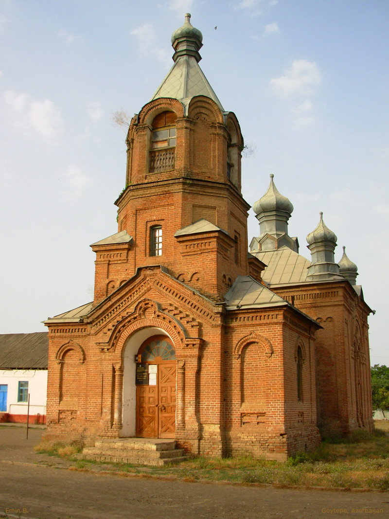 The Russian Church in Goytepe, Azerbaijan, 1887. The historical monument and museim.